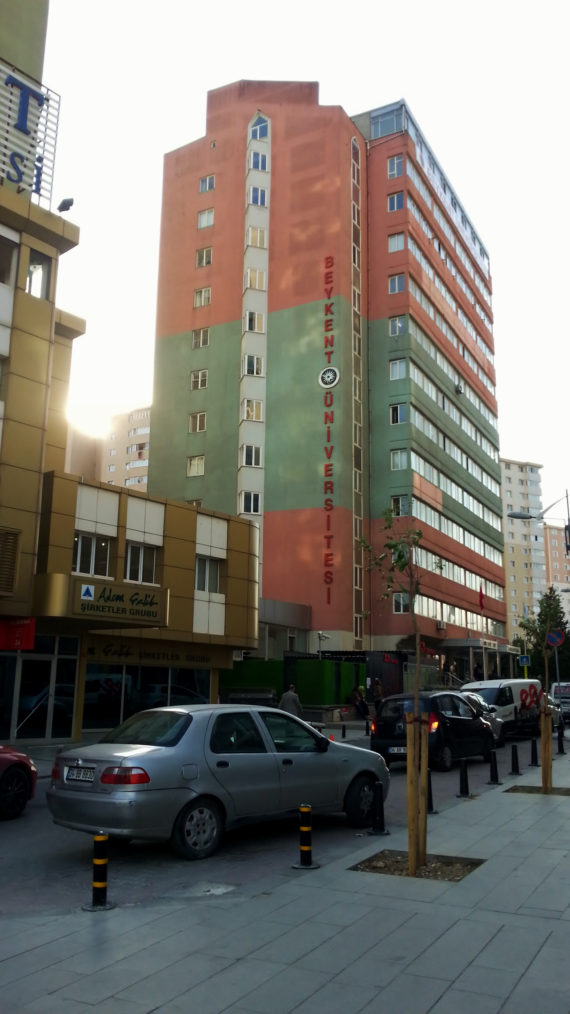 Beykent University Beylikduzu Campus